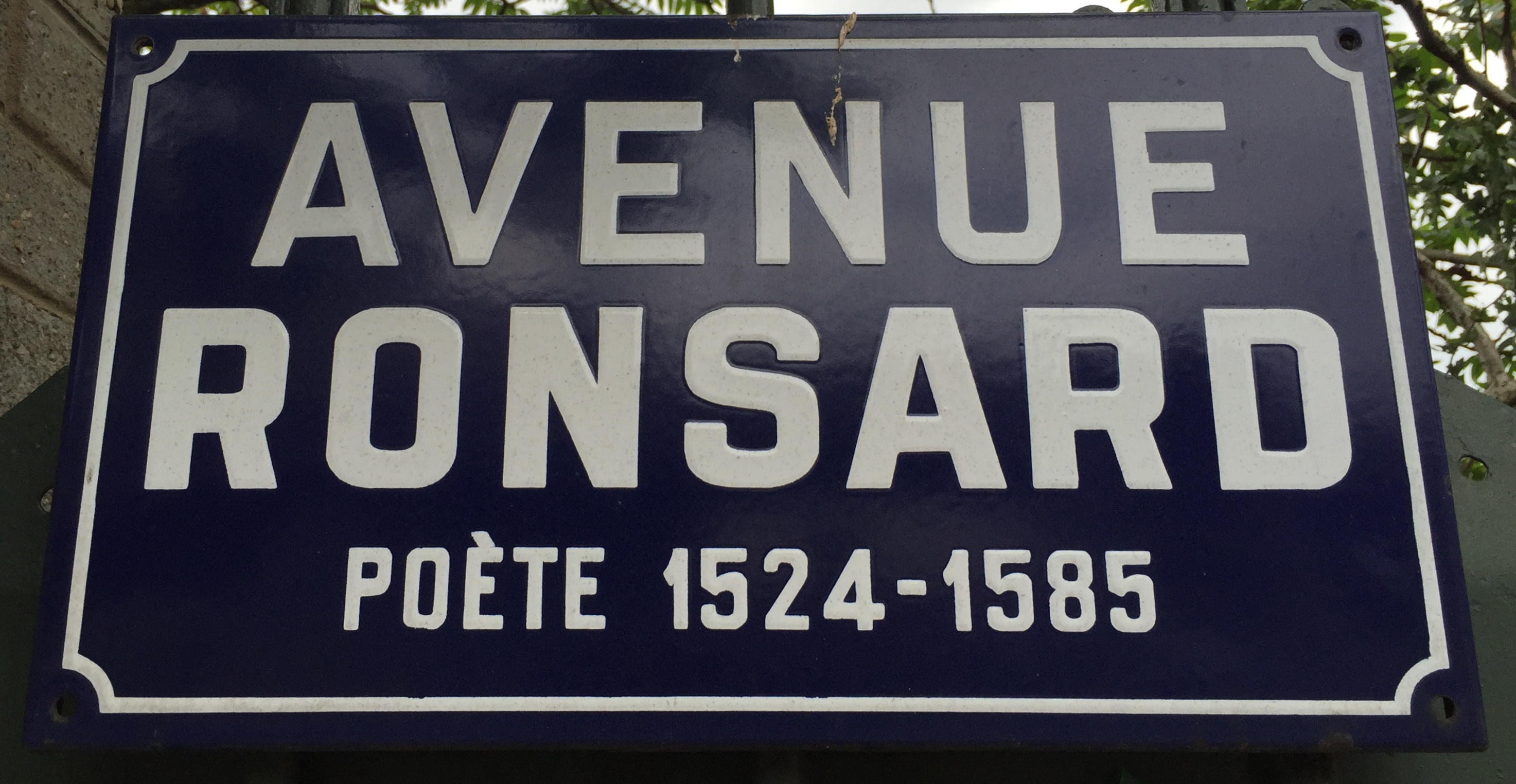 This photograph was taken with an iPhone 6